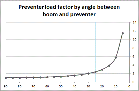 Boom preventer load factor, by angle of incident to the boom. When the preventer is rigged just forward of the boom instead of all the way to the bow, the line load multiplies significantly.